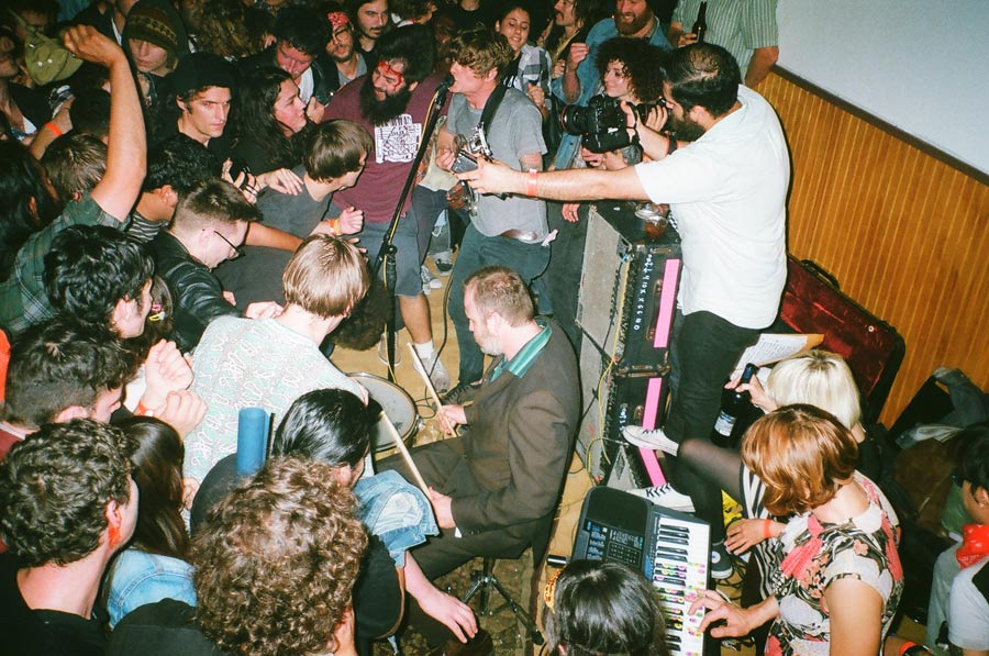 'Coachwhips' play a reunion show at Total Trash Halloween Bash (2012)